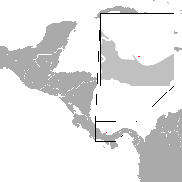 Pygmy Three-toed Sloth (Bradypus pygmaeus) range